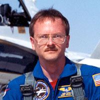 Photo of Dr. Dan Durda Photo part of a series on astronomical studies conducted from a NASA F/A-18B aircraft. for further info